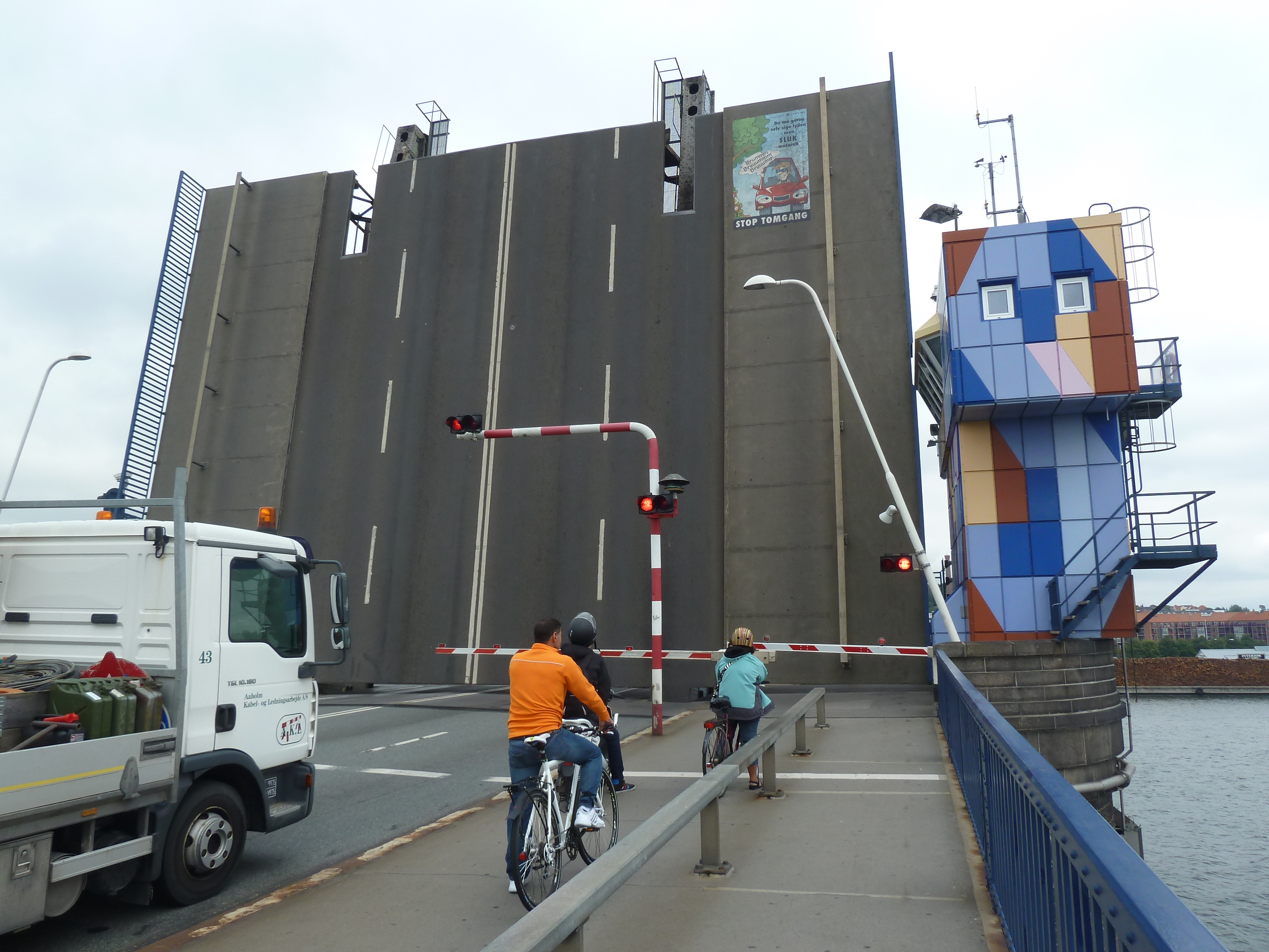 Limfjordsbroen between Nørresundby and Aalborg in Denmark.